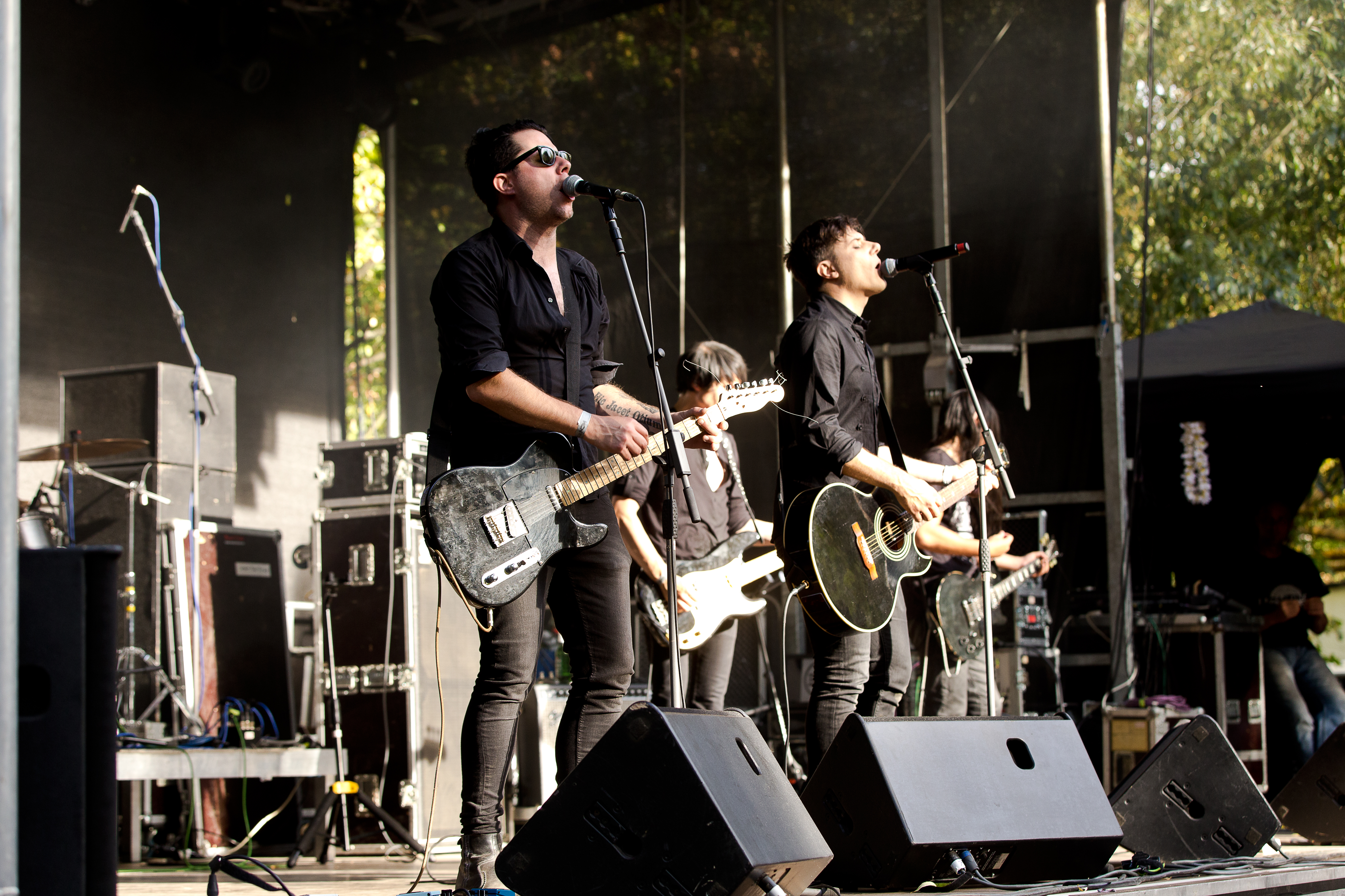 The Swedish post punk band The Exploding Boy at the Nocturnal Culture Night 11 2016 in Deutzen/Germany.